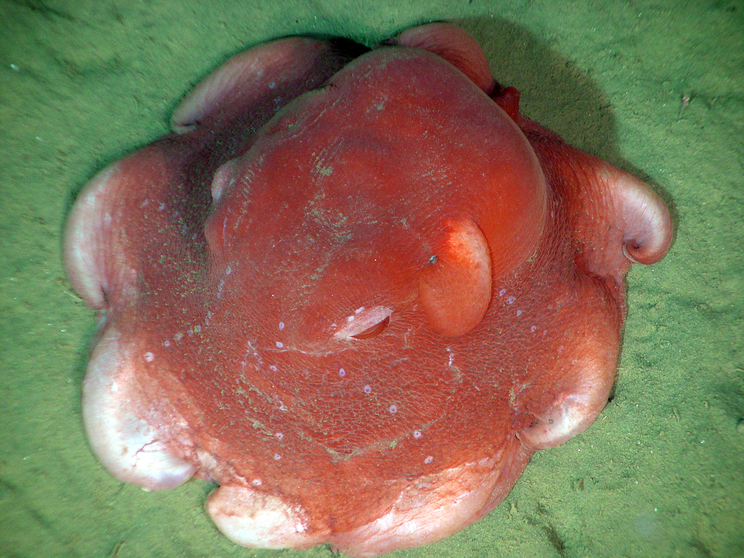 "Dumbo" deep sea cirrate octopus, likely Opisthoteuthis californiana. This type of octopus has muscular lateral fins to propel it.